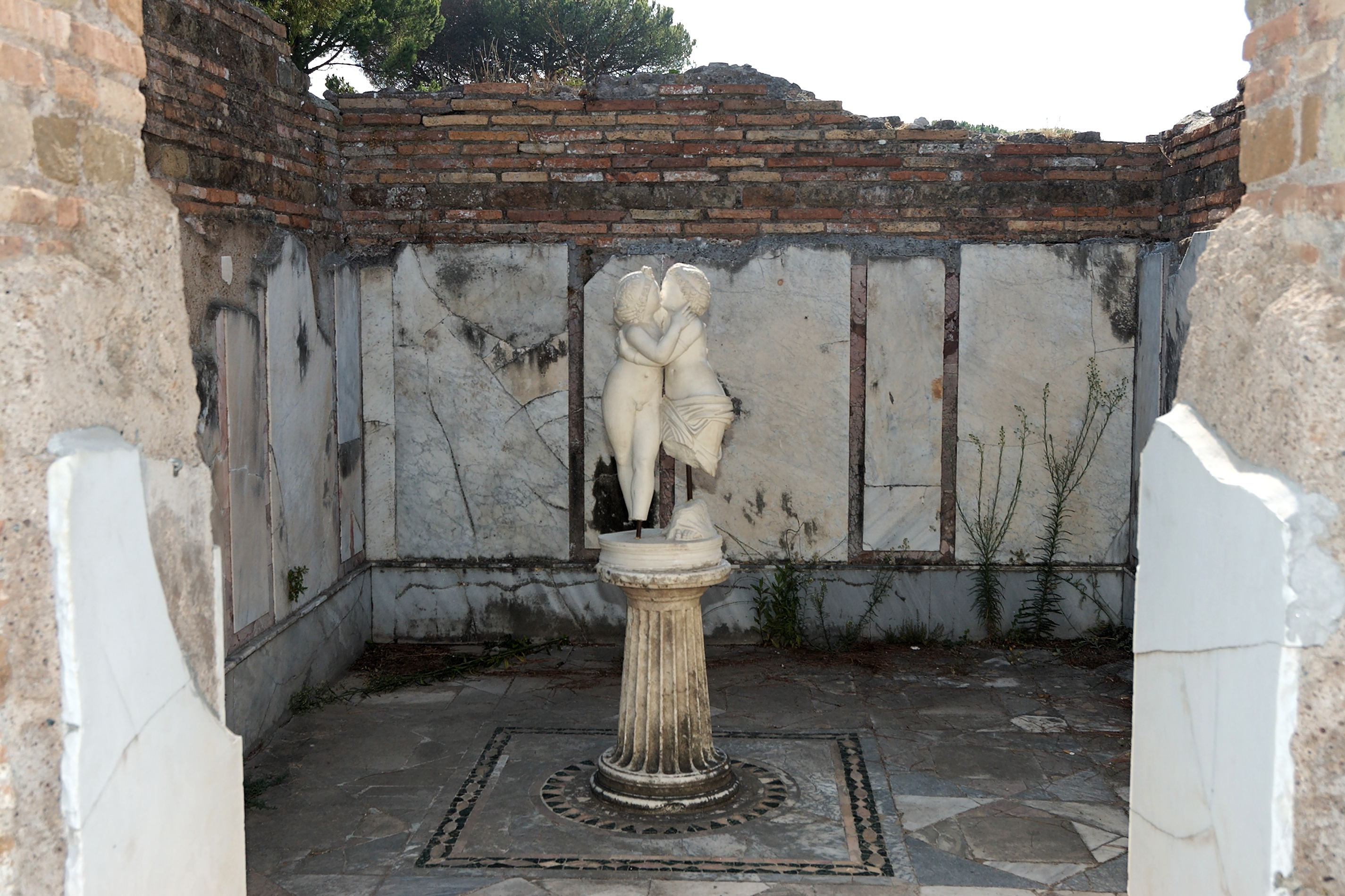 Statue of Cupido and Psyche kissing, 2nd century AD. Room E of the House of Cupid and Psyche (regio I, insula XIV). Ostia Antica, Latium, Italy.